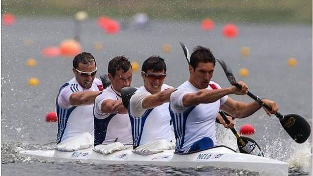 K4 From france at the 2013 ICF world cup in Poznan, Poland.